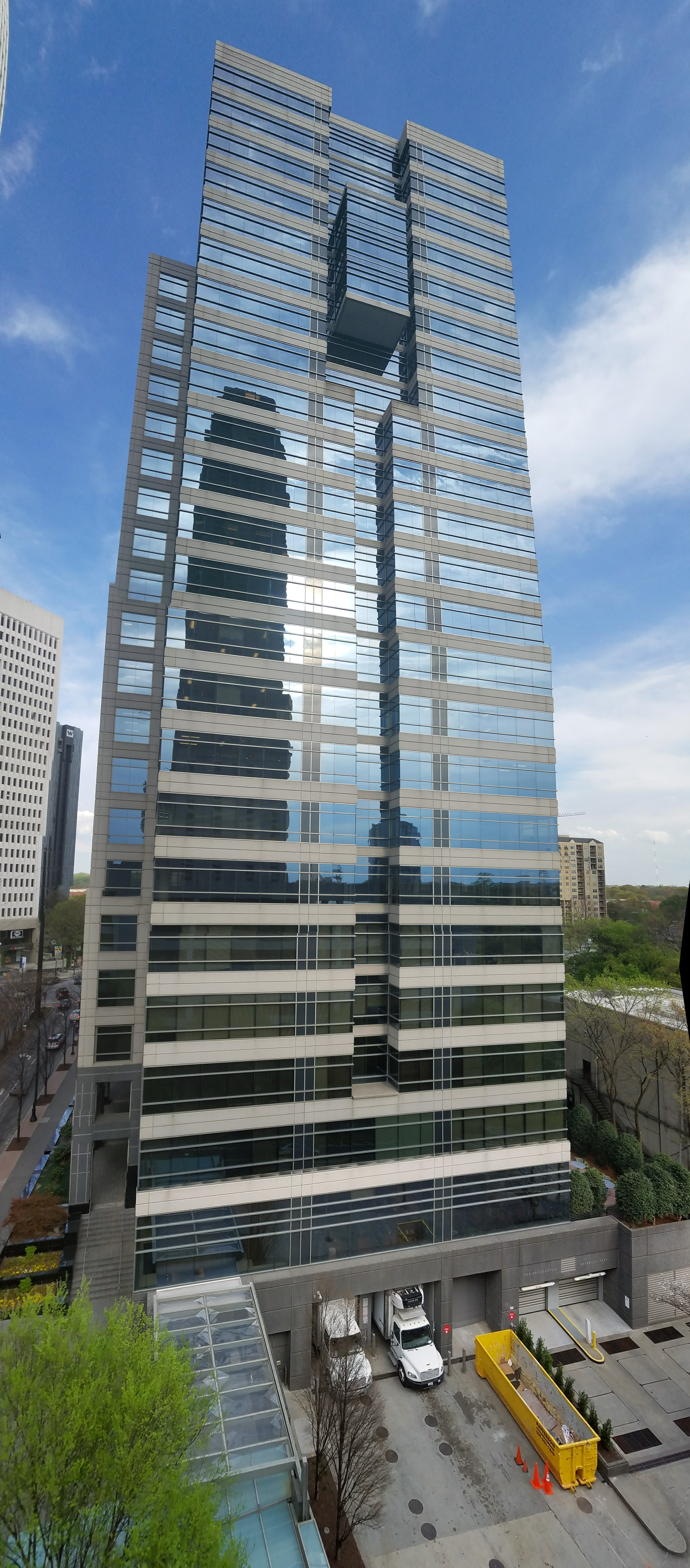 The west side of The Proscenium, viewed from the roof of the parking garage to the west.